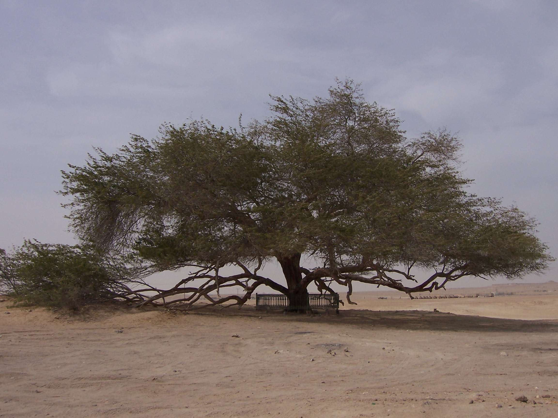 Tree of Life, Bahrain. Taken by Merwyn M. Chee, 27 January 2006.